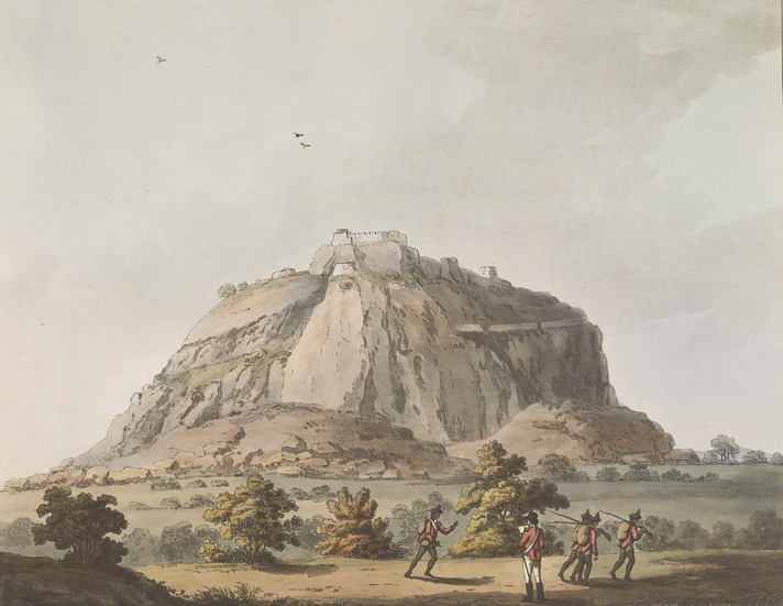 Artist: Hunter, James (d. 1792) Medium: Aquatint, coloured Date: 1804 Plate 29 from 'Picturesque Scenery in the Kingdom of Mysore' by James Hunter (d.1792). This aquatint, which is based on a picture by Hunter, shows, an east view of the hill fort at Krishnagiri, in Tamil Nadu. In the foreground there are four sepoys marching past and a European man looking in the direction of the fort.